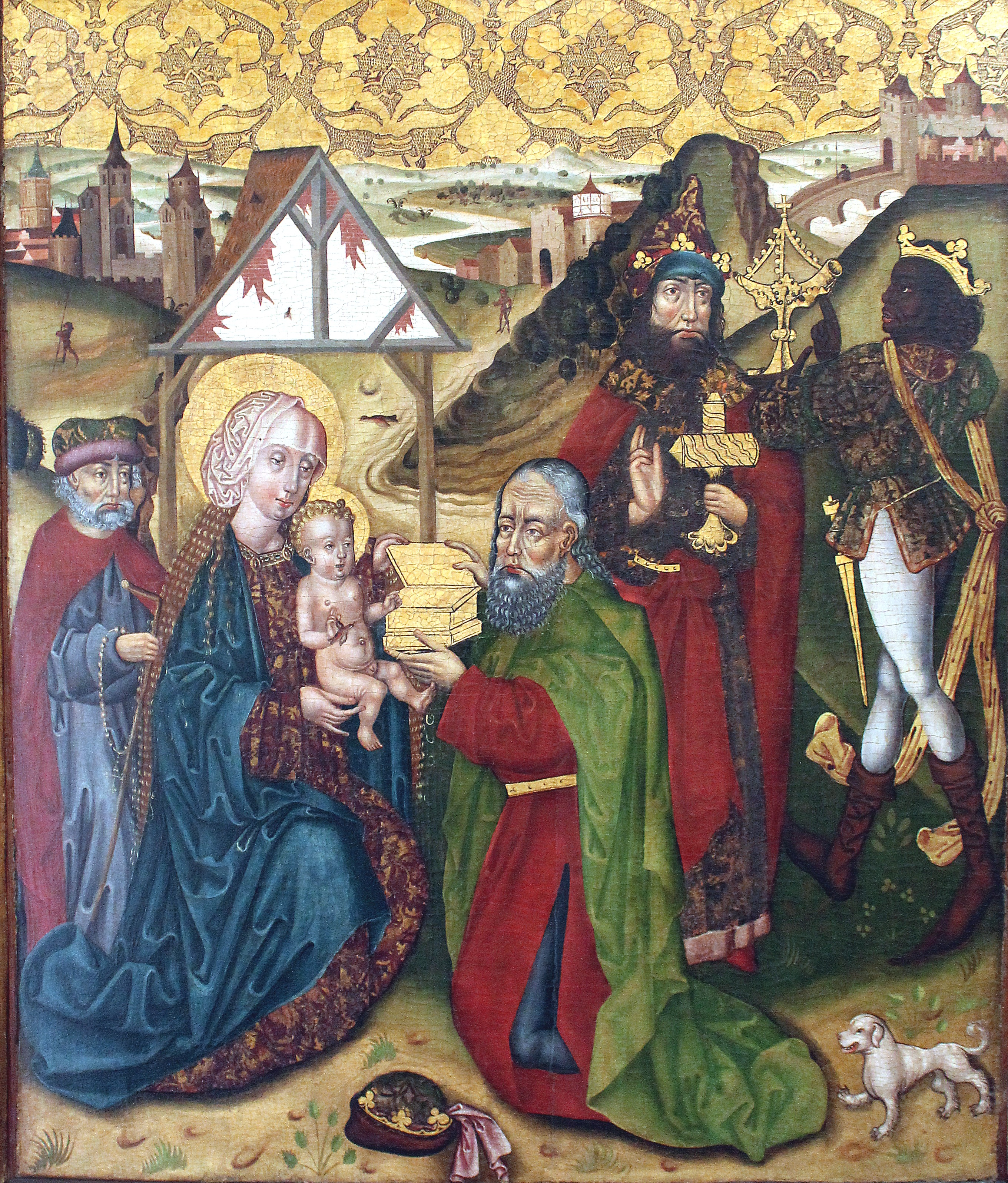 Weimar, Schlossmuseum, Adoration of the Magi, Meister des Allendorfer Altars, 1490